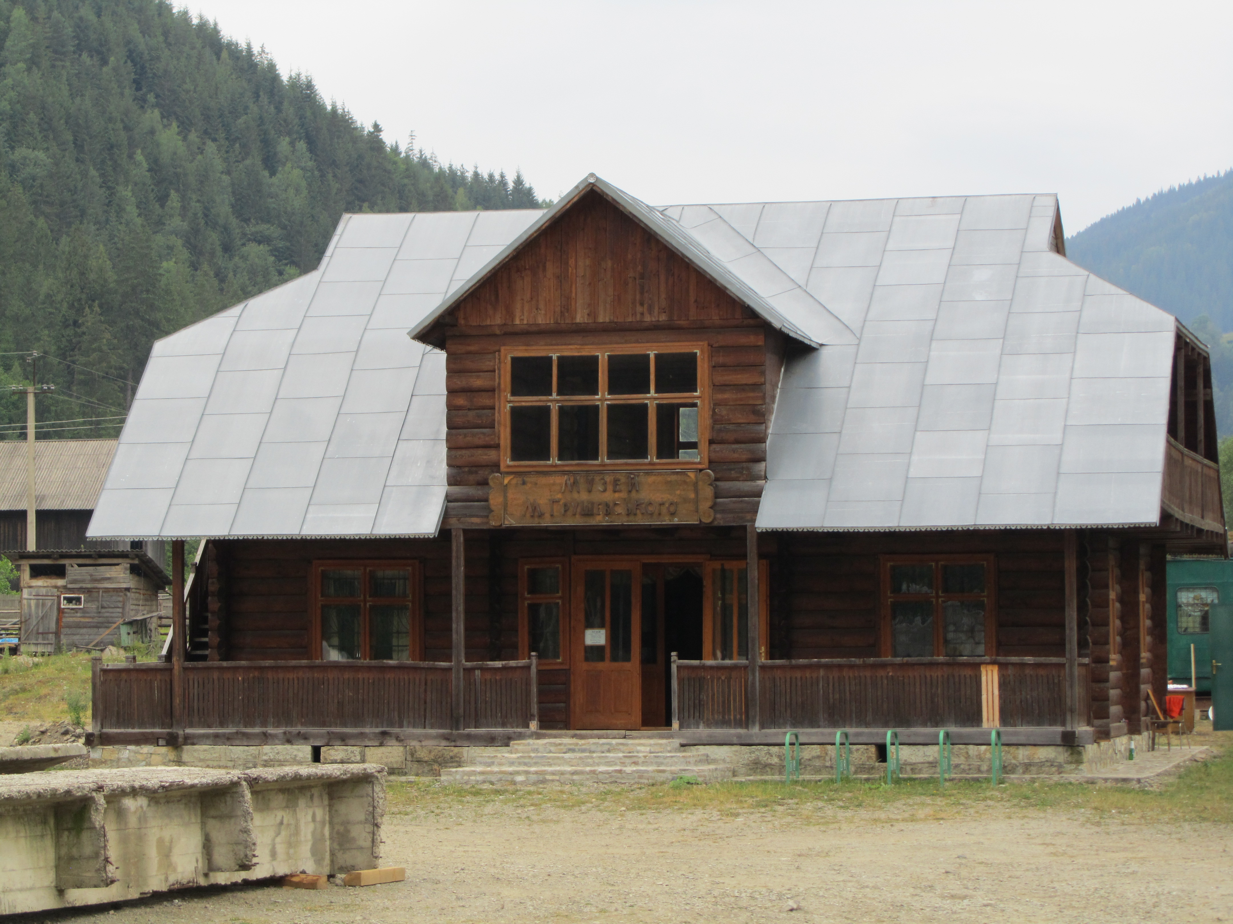 Mykhailo Hrushevskyi museum (Kryvorivnya, Ukraine)